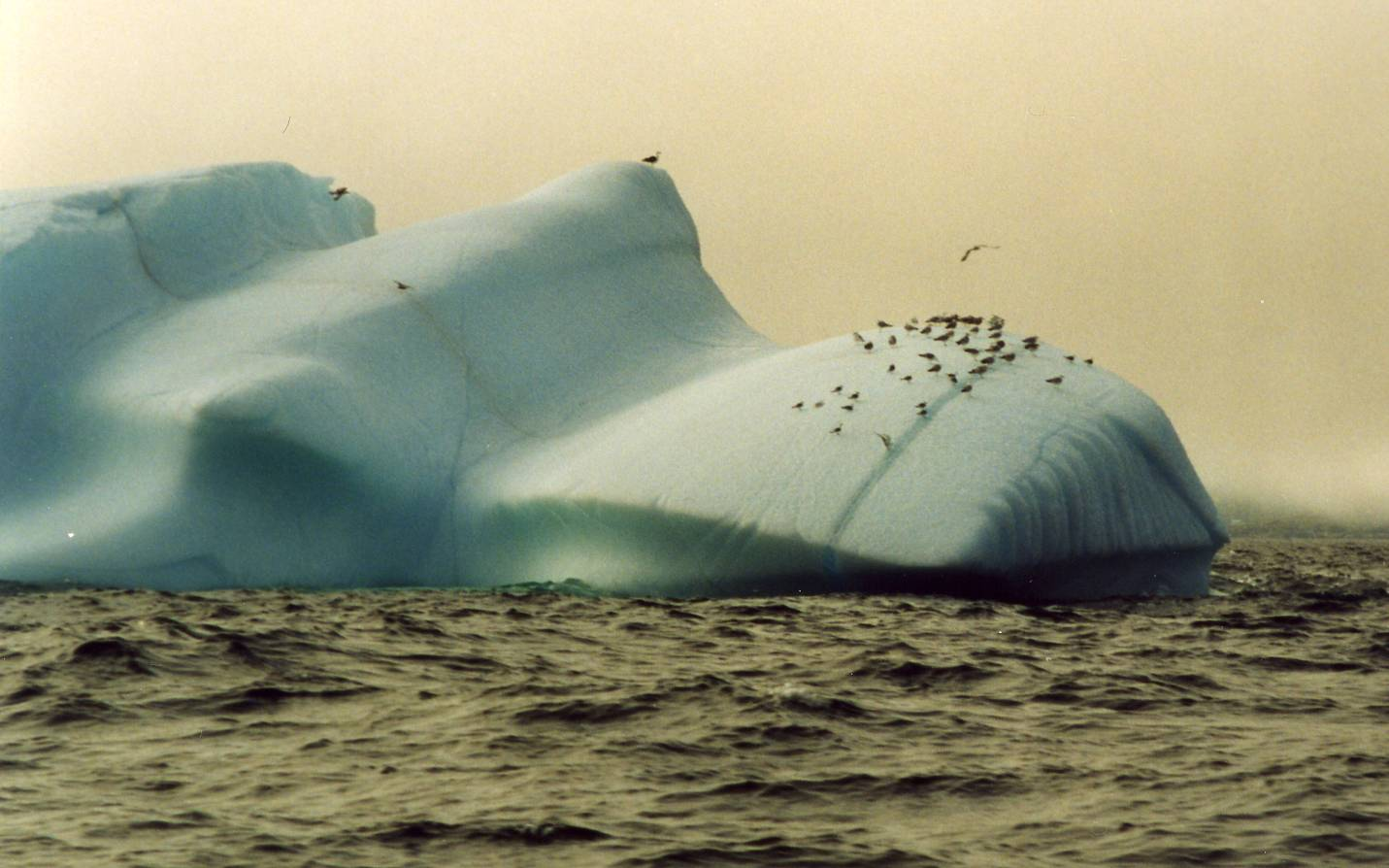 An iceberg in the harbor of Red Bay, Newfoundland and Labrador.